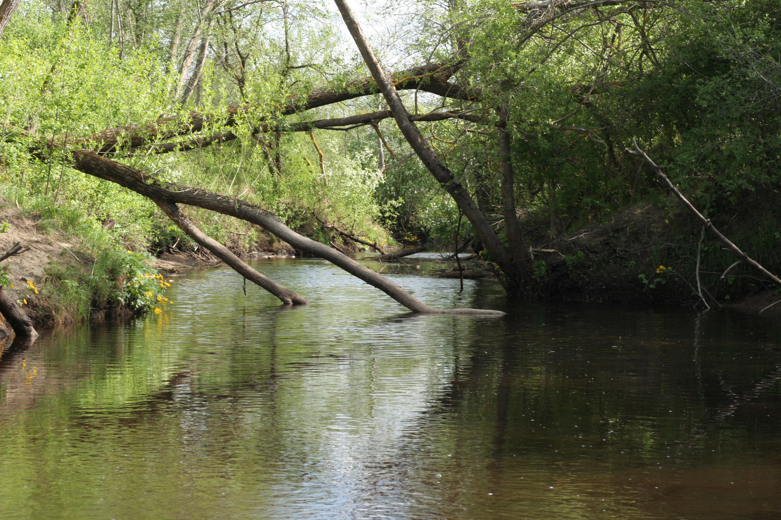 Cena river near from the meeting with Misa river, Ozolnieki municipality, Latvia